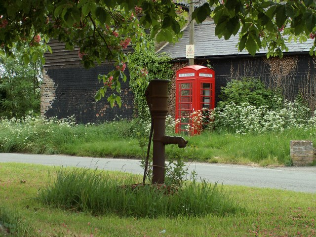 Village pump at Newman's End near Sheering and in the Matching civil parish